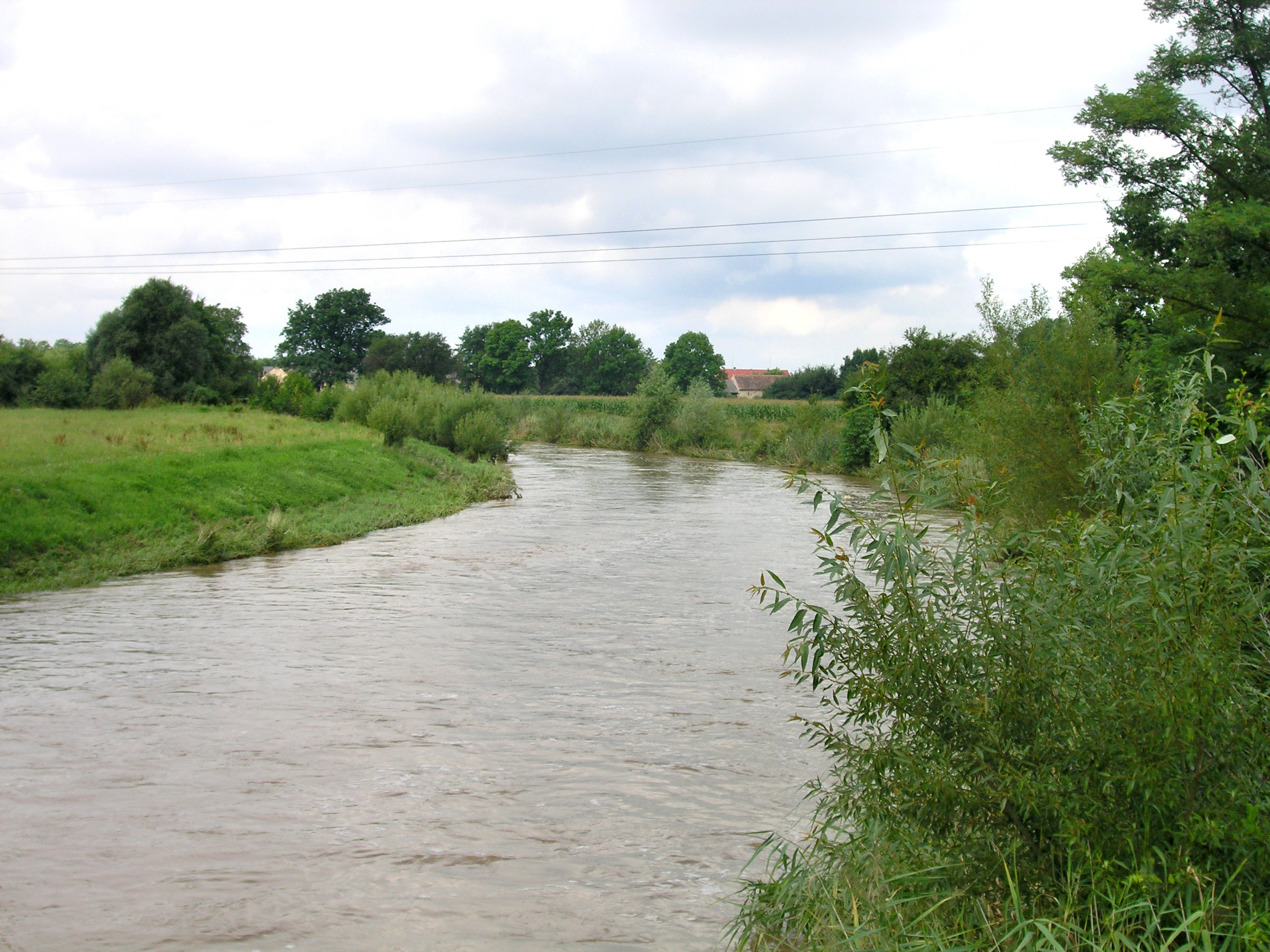 Doubrava by Habrkovice, part of Záboří nad Labem, Czech Republic